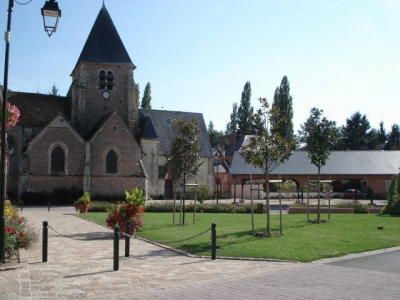 Place, l'église et la halle; photo prise par la Mairie de Sennely.